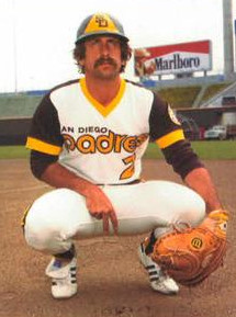 Professional baseball player Rick Sweet